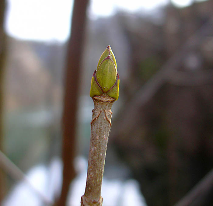 This image shows a tree bud of a Sycamore Maple Acer pseudoplatanus. Thanks to Naturenet and MPF for identifying this tree.